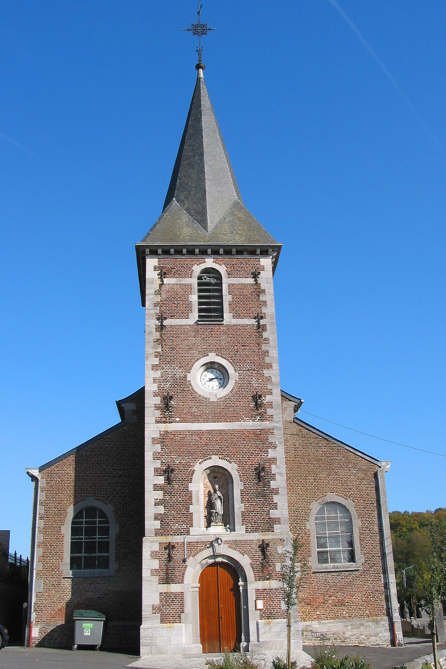 Oteppe (Belgium), the Saint Michael's church.